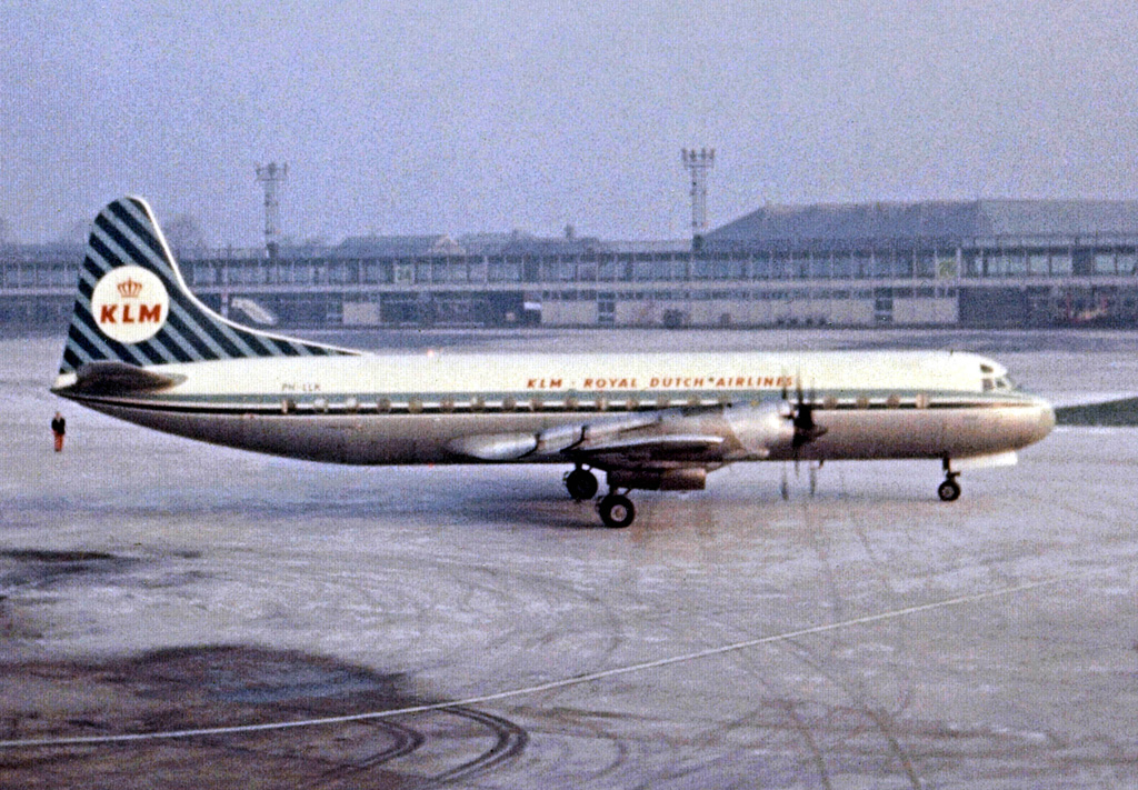 Lockheed L188C Electra PH-LLK "Pallas" of KLM at Manchester Airport in 1963.